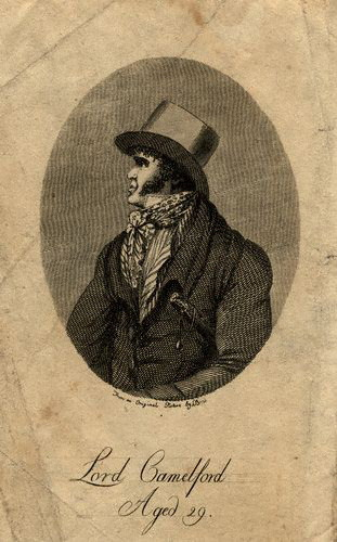 Thomas Pitt, 2nd Baron Camelford